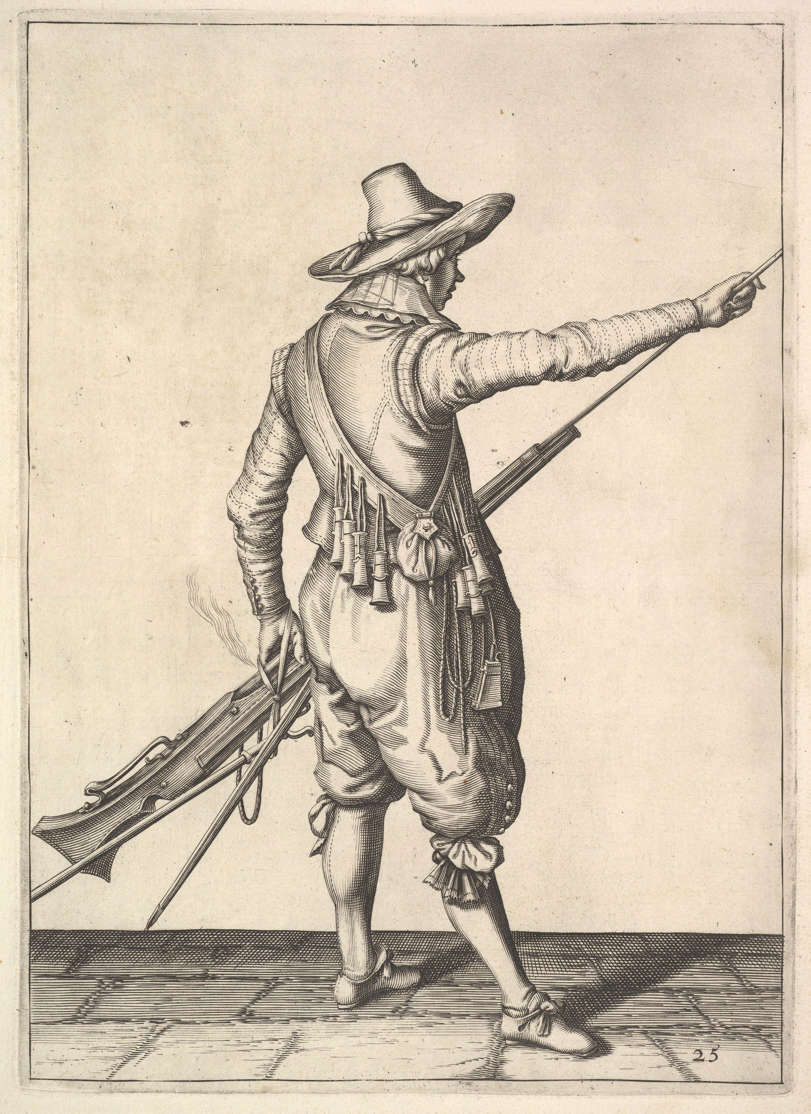 Print; Prints